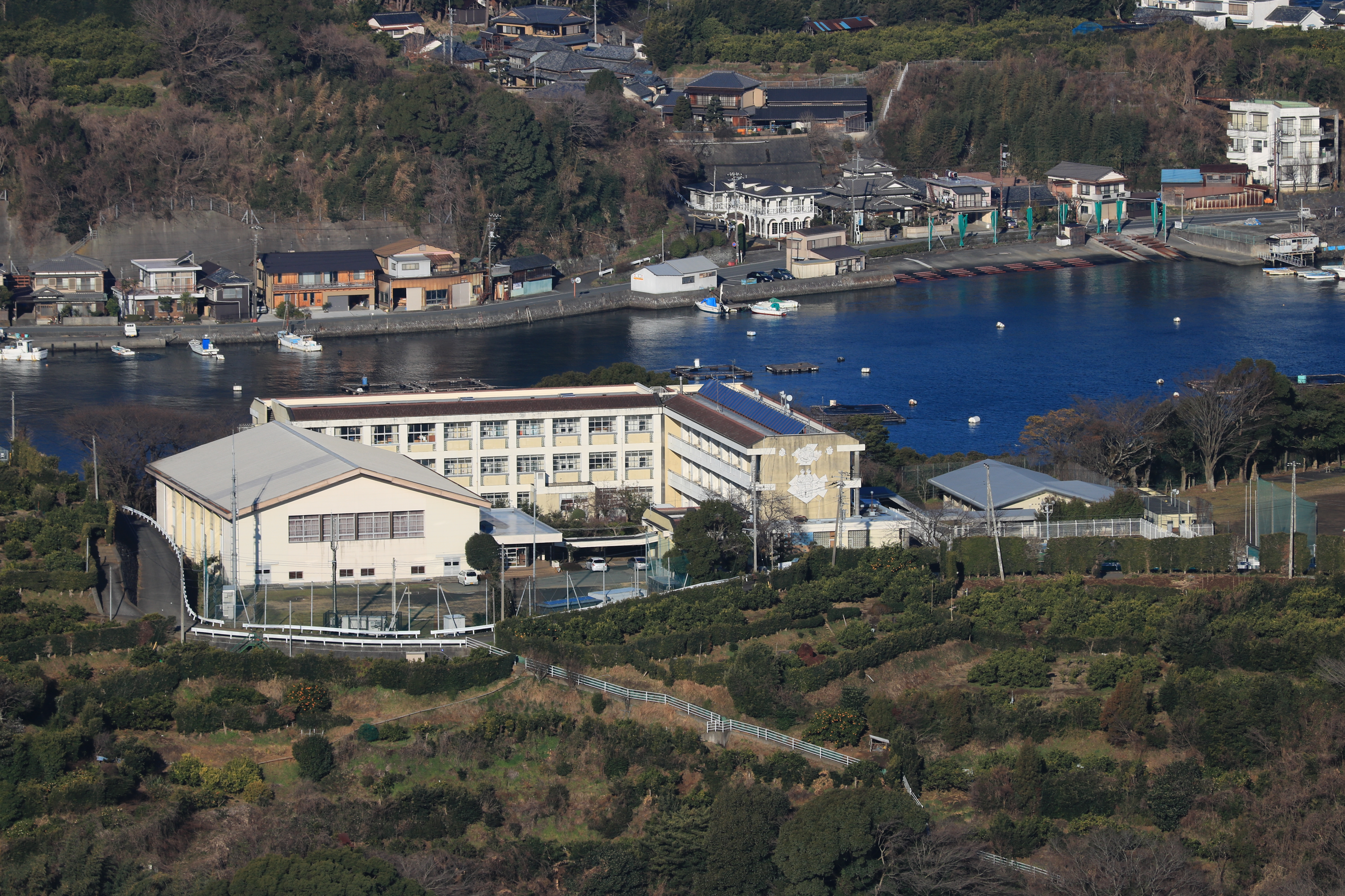 Nagaisaki junior high school seen from Mount Hottanjō in Numazu, Shizuoka prefecture, Japan.